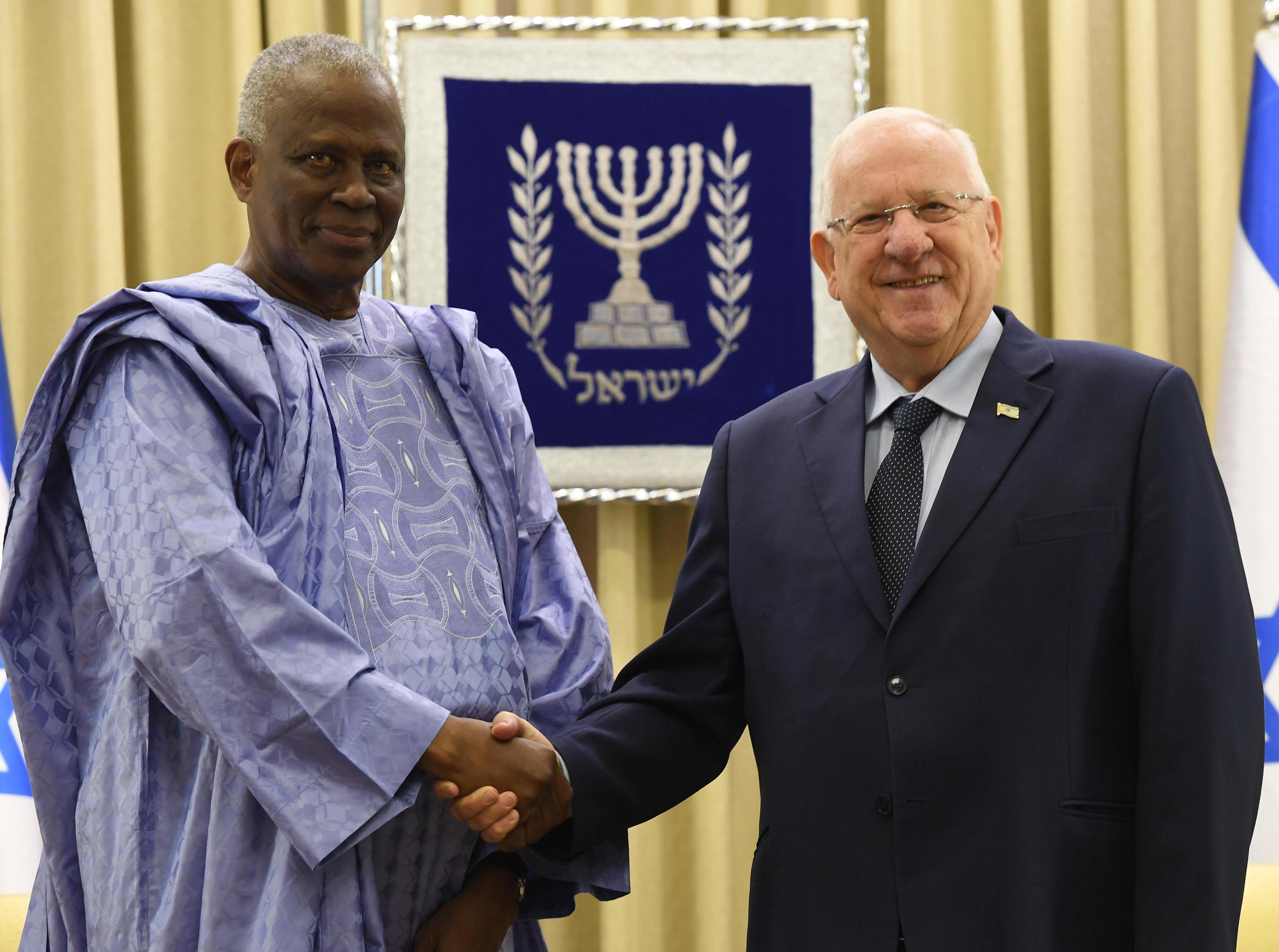 President Reuven Rivlin receives the credentials of new ambassadors upon their entry as ambassadors of their countries in Israel at an official ceremony held at the Beit HaNassi. Tuesday, August 8, 2017. Photo Credit: Mark Neyman / GPO